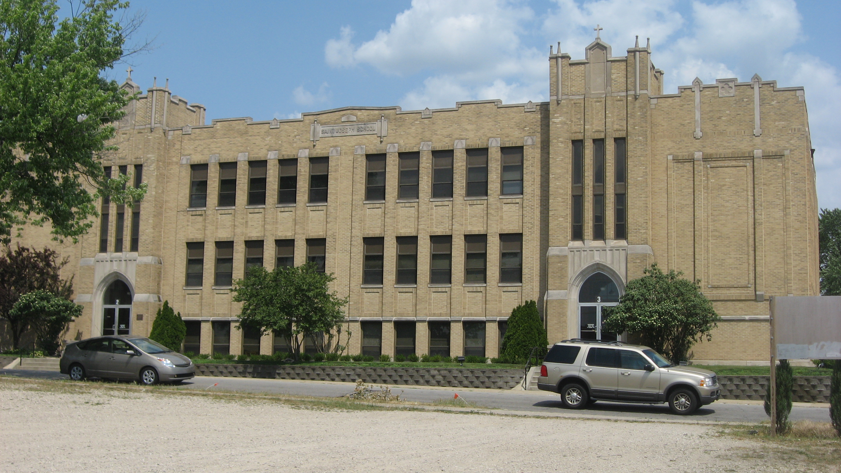 Front of St. Joseph School, located at 210 N. Hill Street in South Bend, Indiana, United States. Built in 1925, it is listed on the National Register of Historic Places.